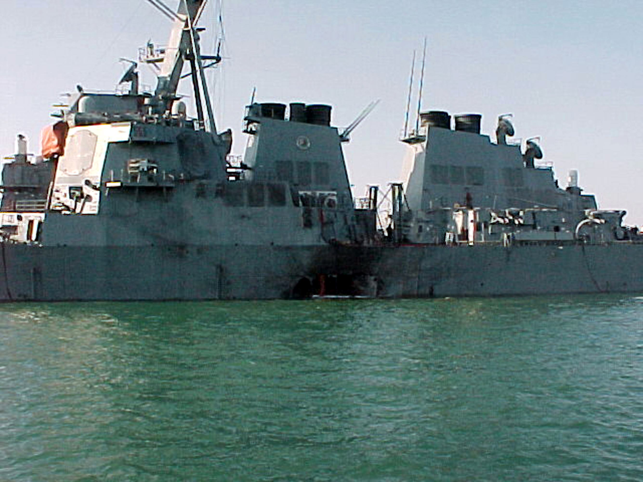 Port side view showing the damage sustained by the Arleigh Burke class guided missile destroyer USS Cole (DDG 67) on October 12, 2000, after a suspected terrorist bomb exploded during a refueling operation in the port of Aden, Yemen. USS Cole is on a regular scheduled six-month deployment.